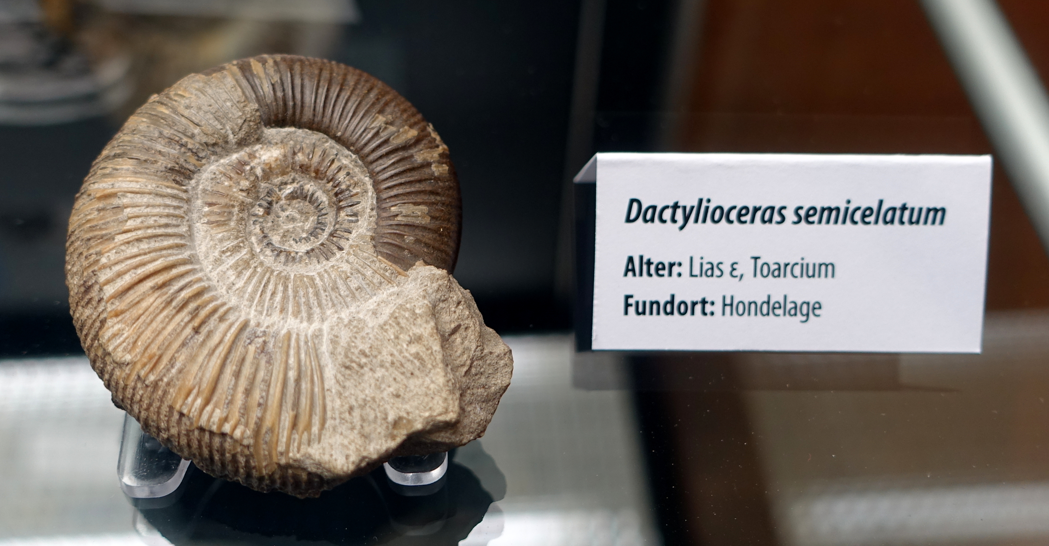 Exhibit in the Naturhistorisches Museum, Braunschweig, Germany.